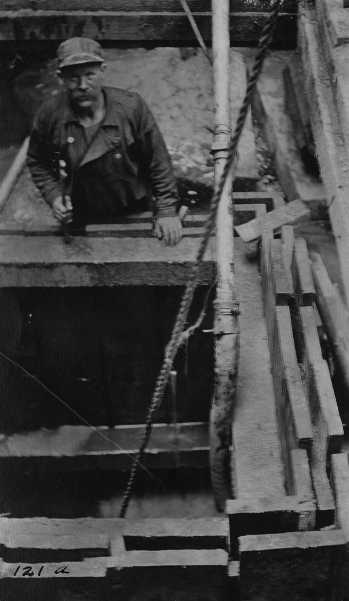 Lander Street sewer construction, Seattle, Washington, U.S., 1910. This was in the then newly filled Industrial District, which a decade earlier had been a tideflat.